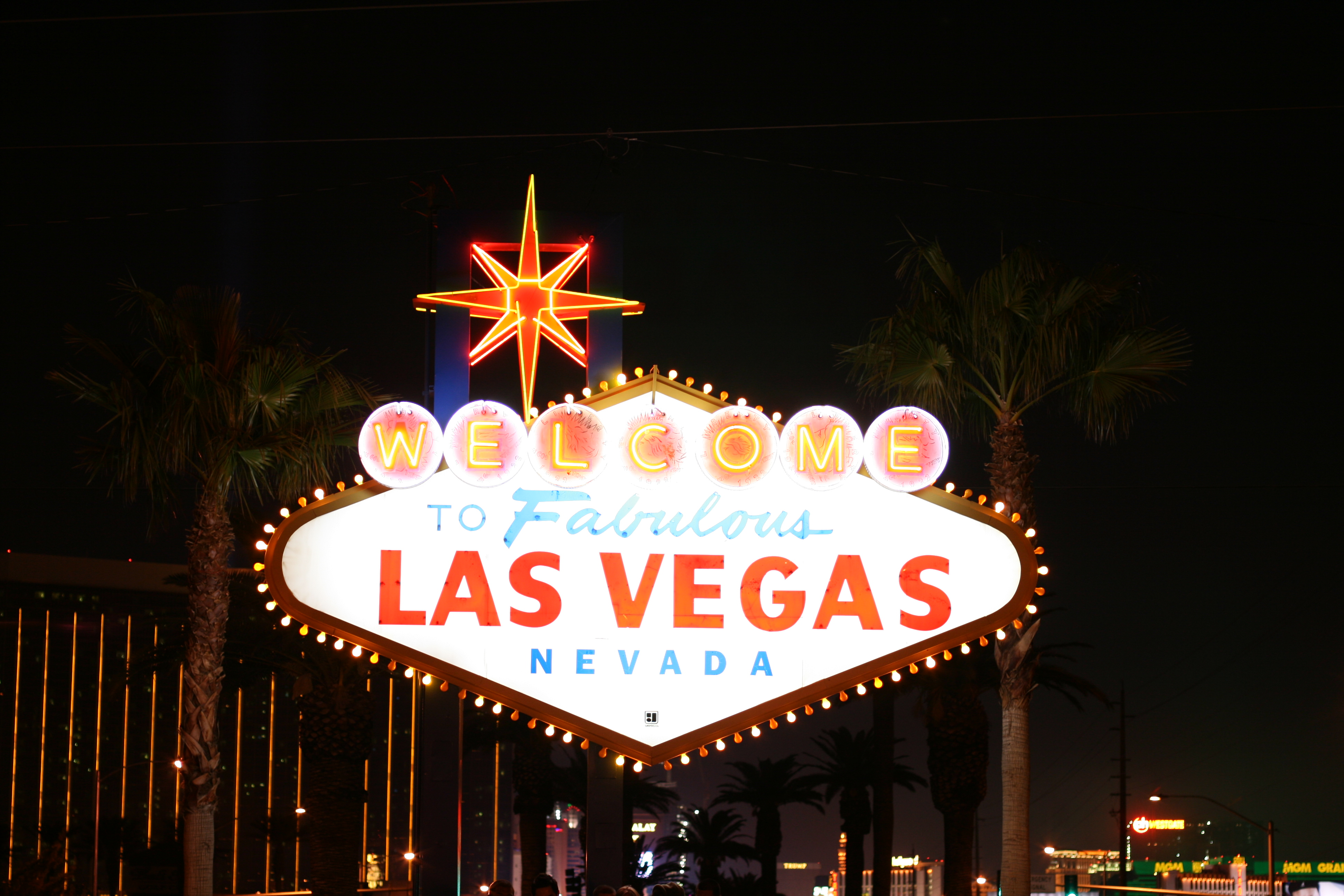 The "Welcome to Fabulous Las Vegas, Nevada" sign on South Las Vegas Boulevard